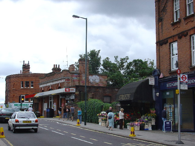 St. Margarets railway Station. Between Richmond and Twickenham this station is on the A3004.